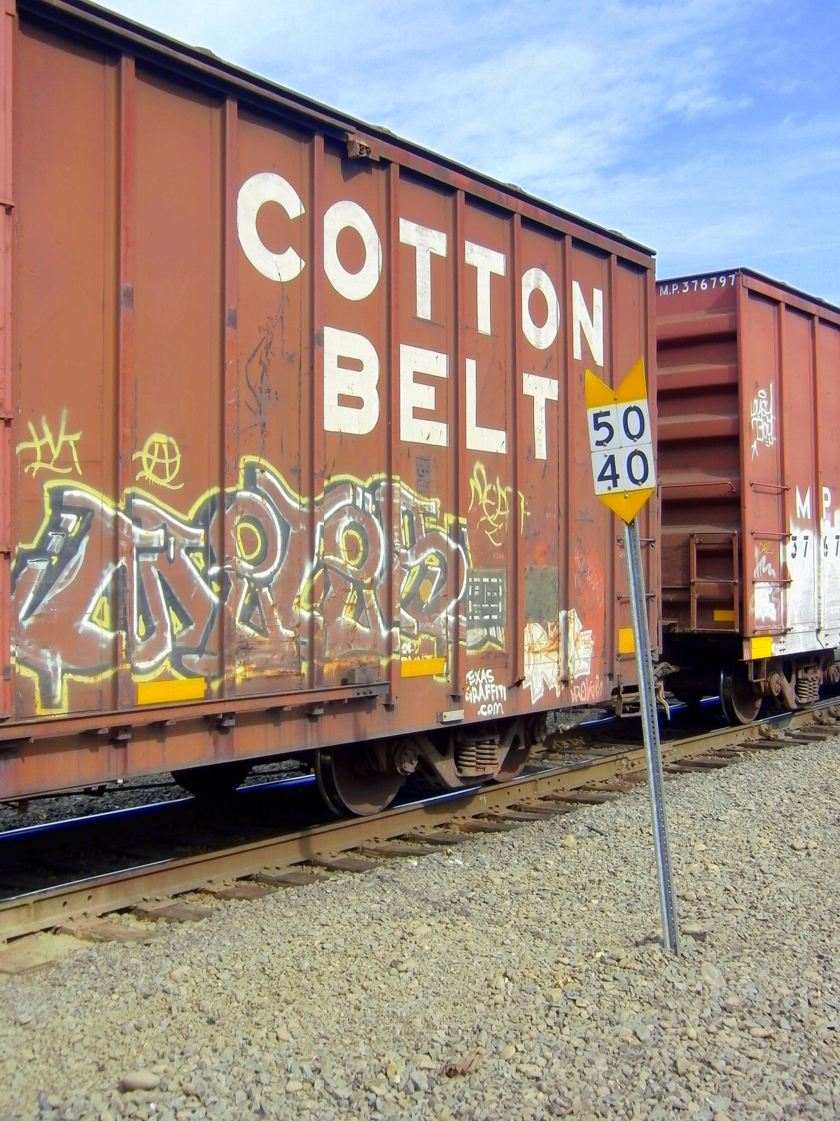 Downtown Springfield, Oregon